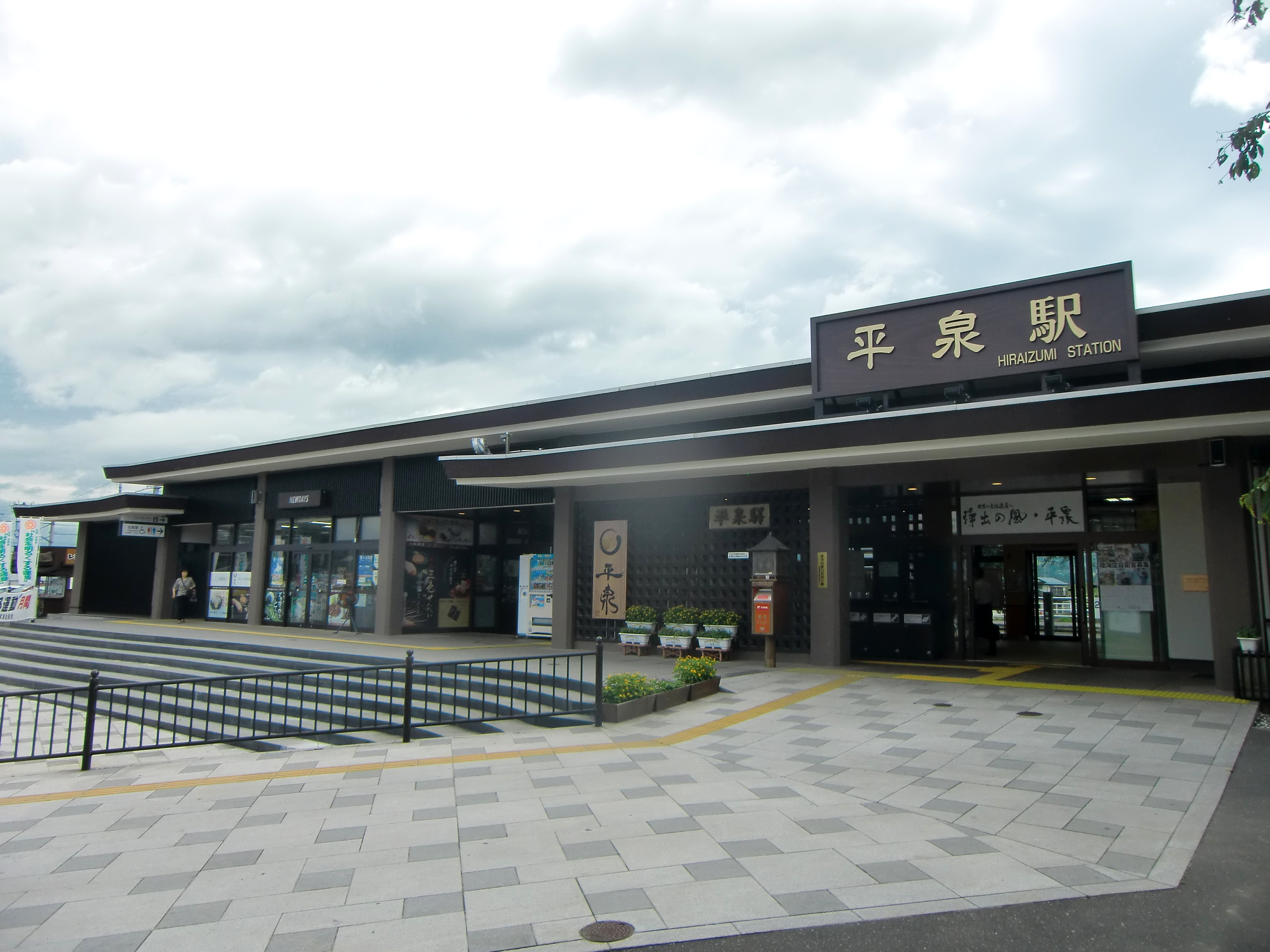 Hiraizumi Station on Tōhoku Main Line in Hiraizumi Town, Iwate Prefecture, Japan